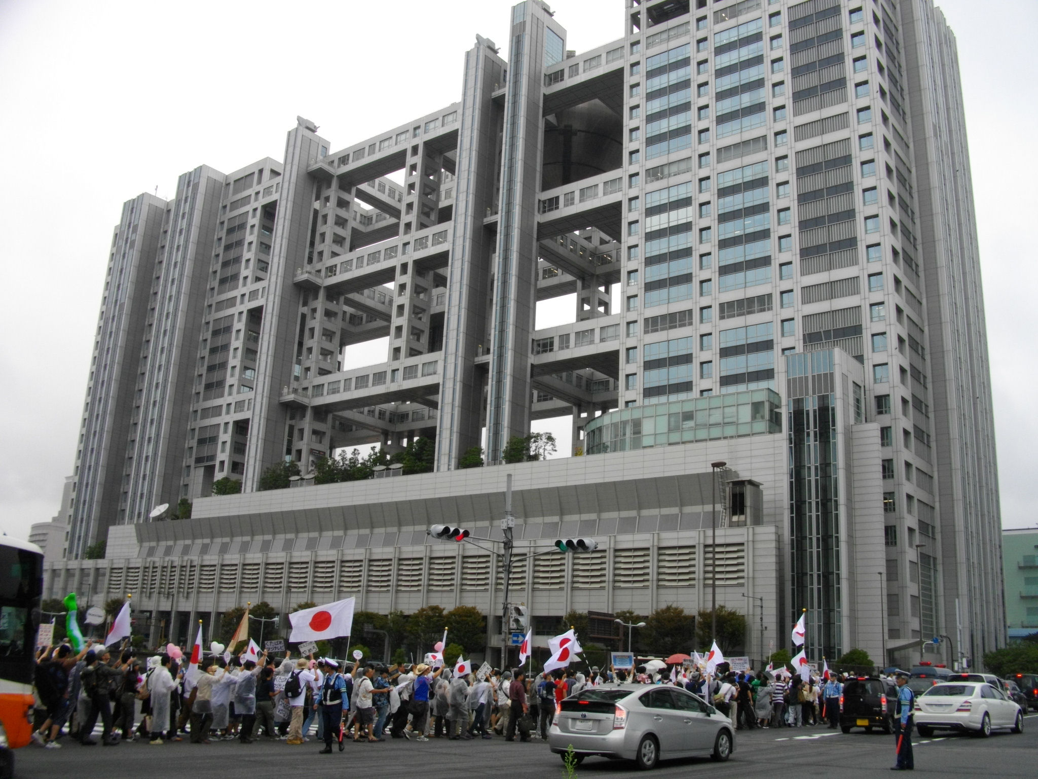 Anti-Fuji Television rally on 21 August 2011 at Odaiba